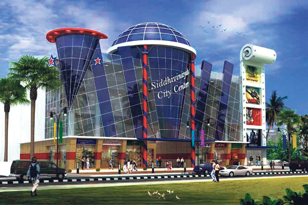 Siddgi Vinayak City Center Mall,Ratnagiri